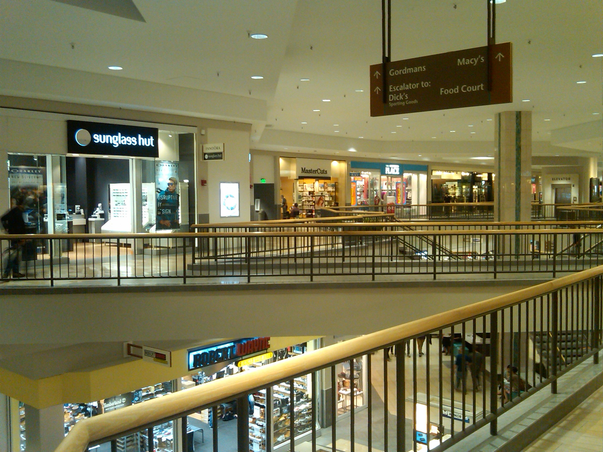 Coronado Center mall, Albuquerque, New Mexico. Photo by Anthony M. Inswasty